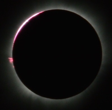 Solar eclipse of March 9, 2016, total eclipse seen from Manggar Beach, Balikpapan, East Kalimantan.